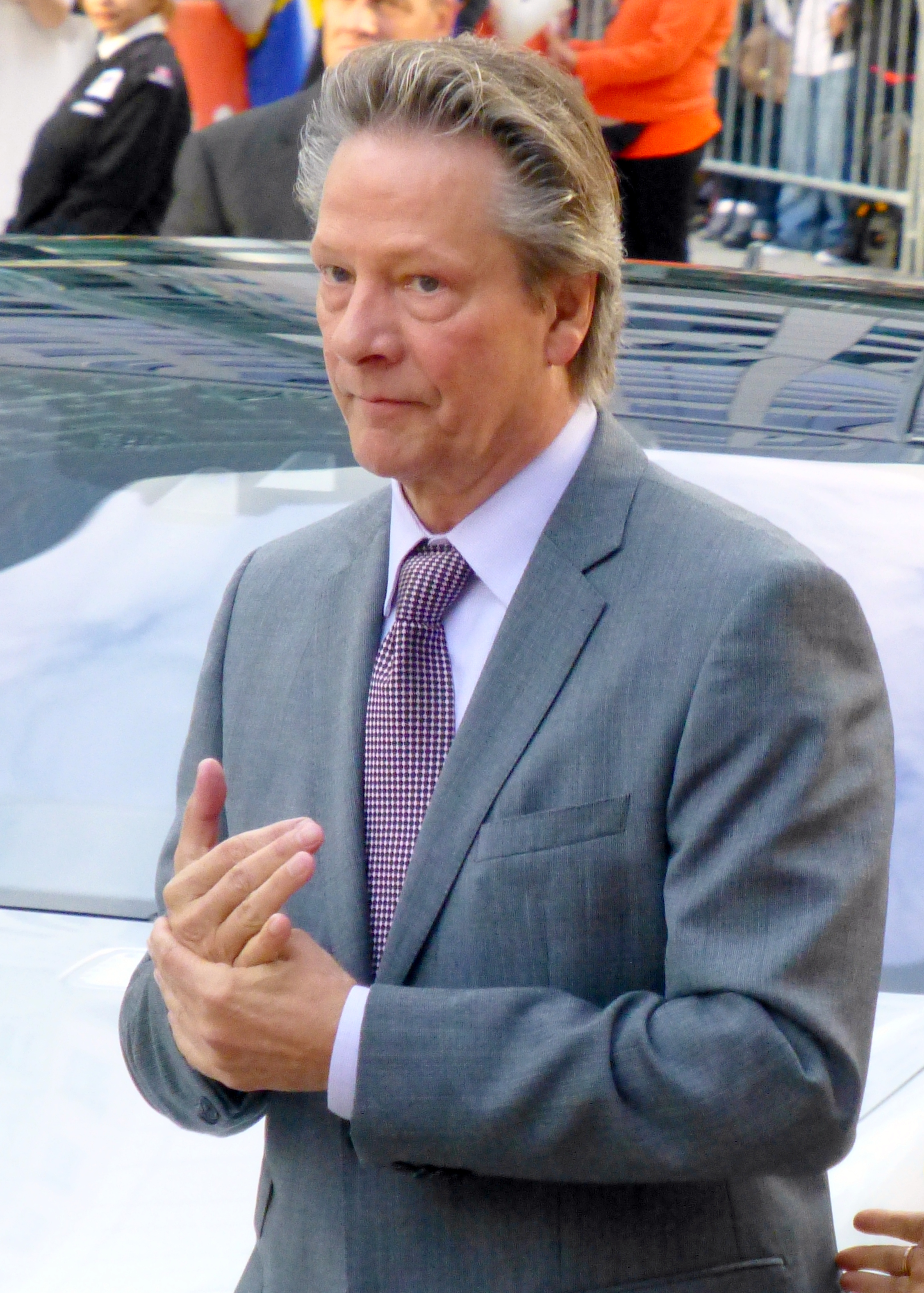 Actor Chris Cooper at the Toronto International Film Festival, September 2013